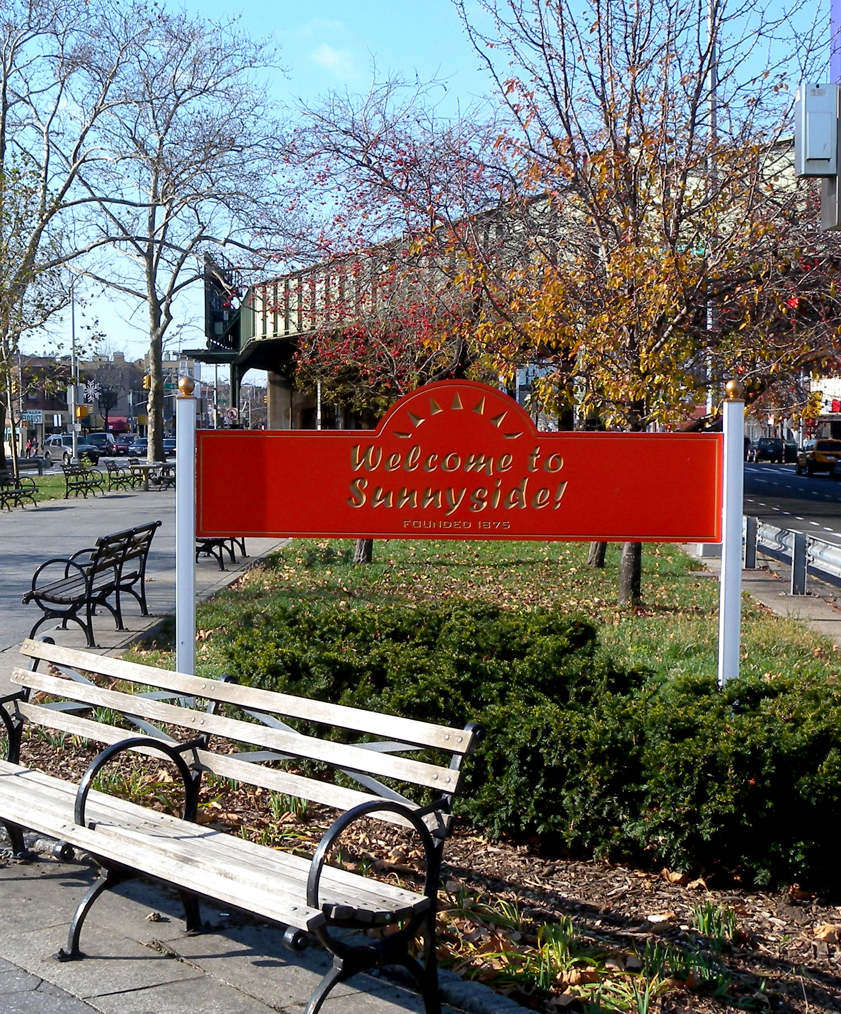 Looking west at "Welcome to Sunnyside" sign on the north side of Queens Boulevard east of Roosevelt Avenue on a sunny midday.